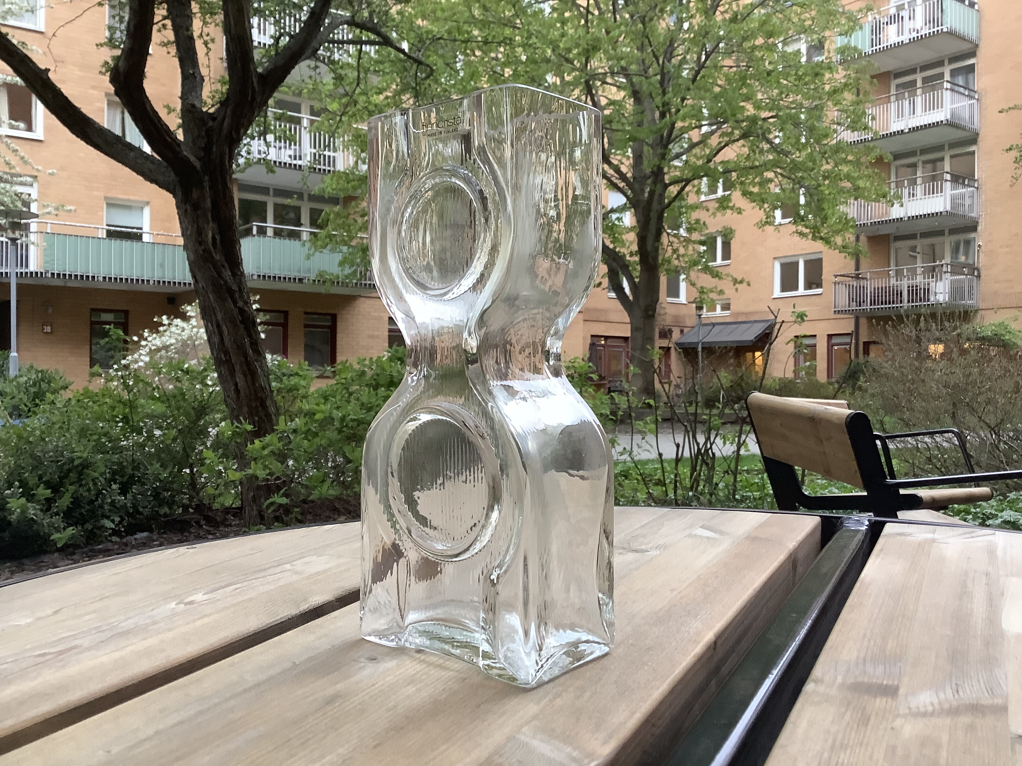 The vase Grandfather clock - Kaappikello - Golvuret produced for Riihimäki glass 1966-69, height 21 cm. Designː Helena Tynell. The vase was produced in different sizes and colours, 20 cm in moss green, orange and yellow, 21 cm in clear glass, grey, olive green and 27 cm in moss green, orange, according the the magazine Scandinavian Retro no 6 - 2016.